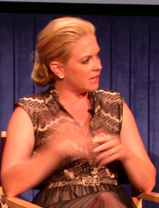 Actress Melissa Joan Hart at the Los Angeles Paley Center for Media, June 22, 2011